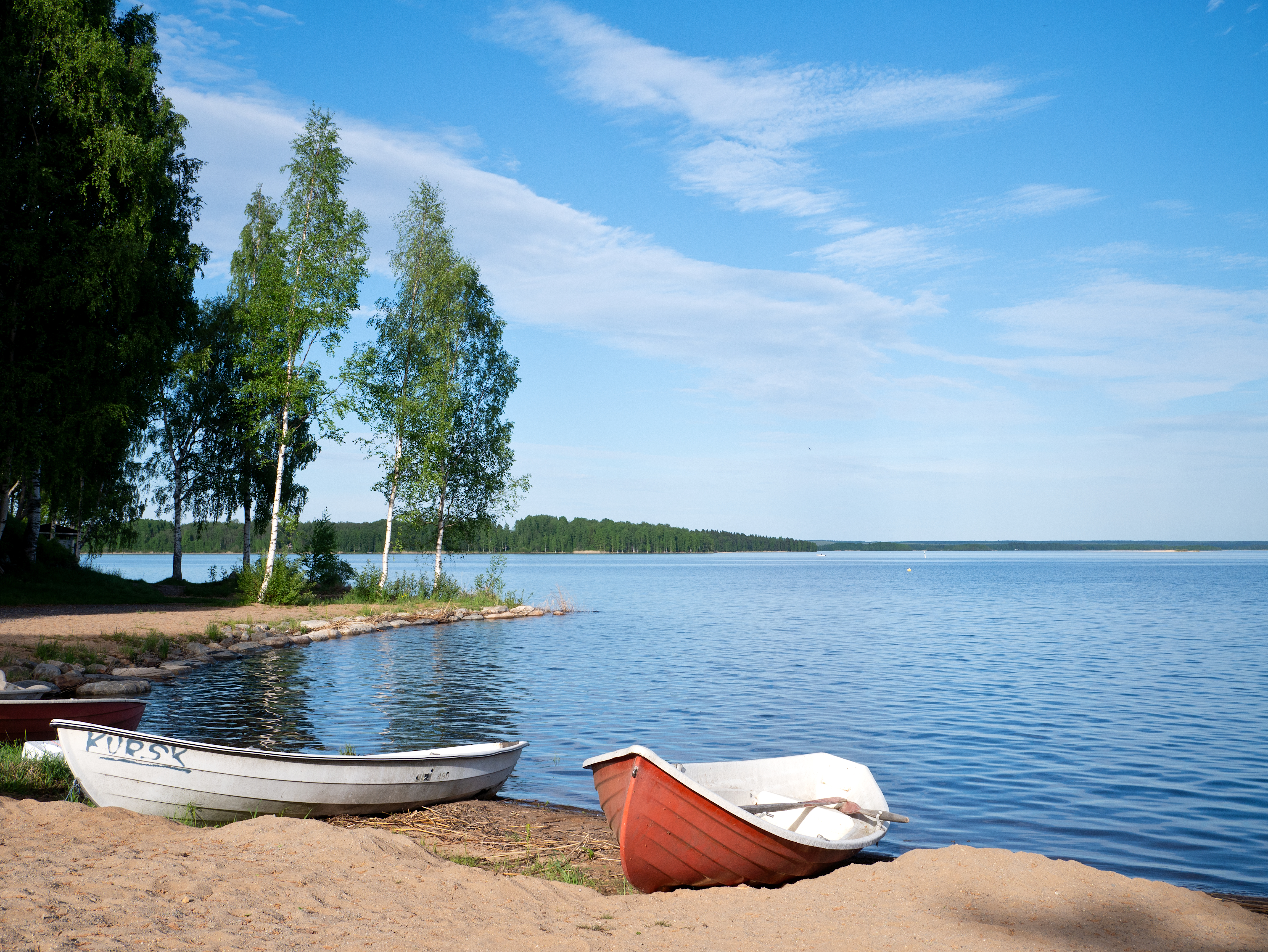 Boats on beach at Lake Lappajärvi.